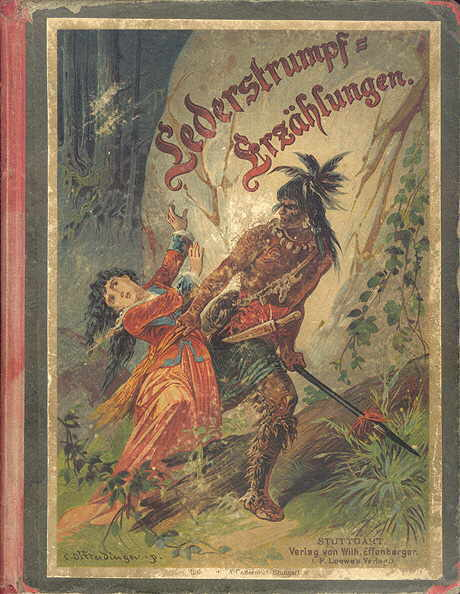 Cover illustration for a youth edition of James Fenimore Coopers Leatherstocking Tales, published by Verlag von Wilh. Effenberger